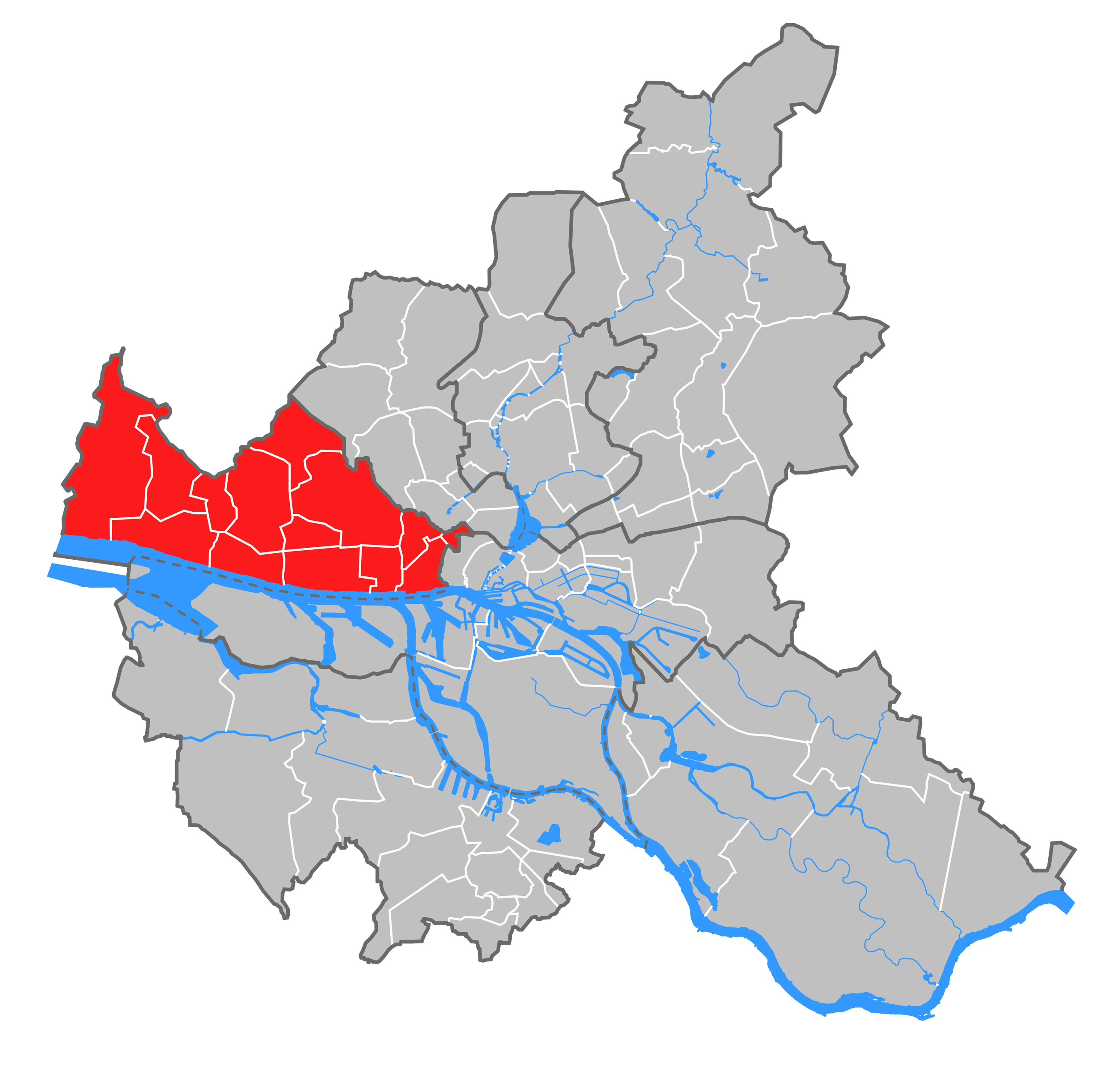 map of the district of Hamburg-Altona, Hamburg, Germany